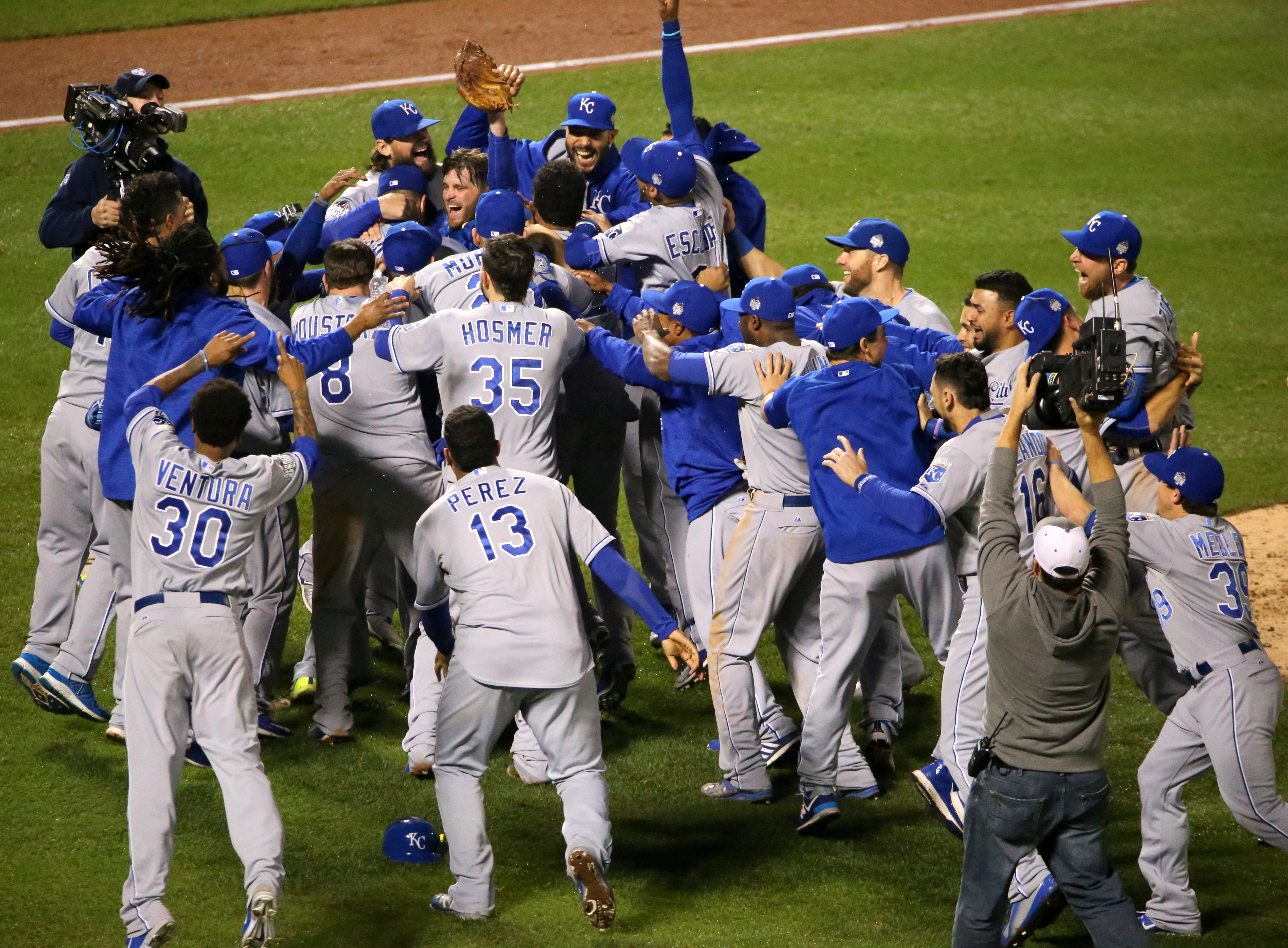 The Royals celebrate after winning the 2015 #WorldSeries.